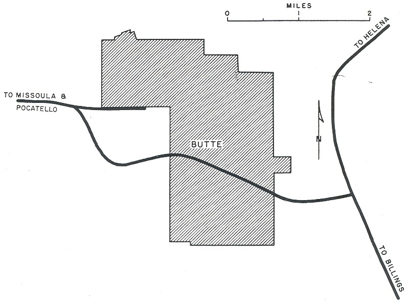 Interstates in today's terms I-15 I-90 I-115